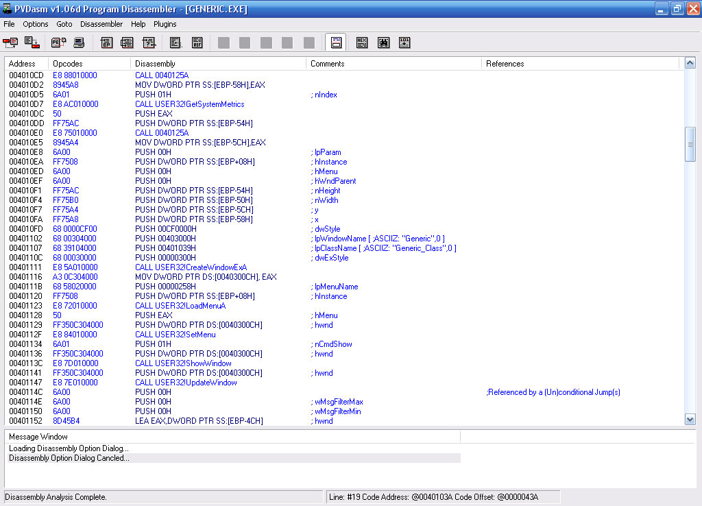 The Proview (a.k.a PVDasm) Disassembler is Free, Interactive, Multi-CPU (Intel 80x86/ Chip8) that includes many features which allows the user to perform analysis on the target image file.